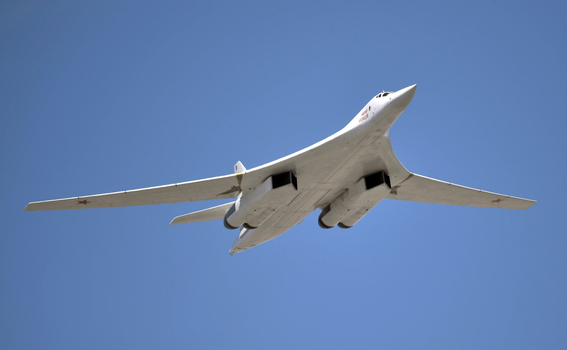 2018 Moscow Victory Day Parade